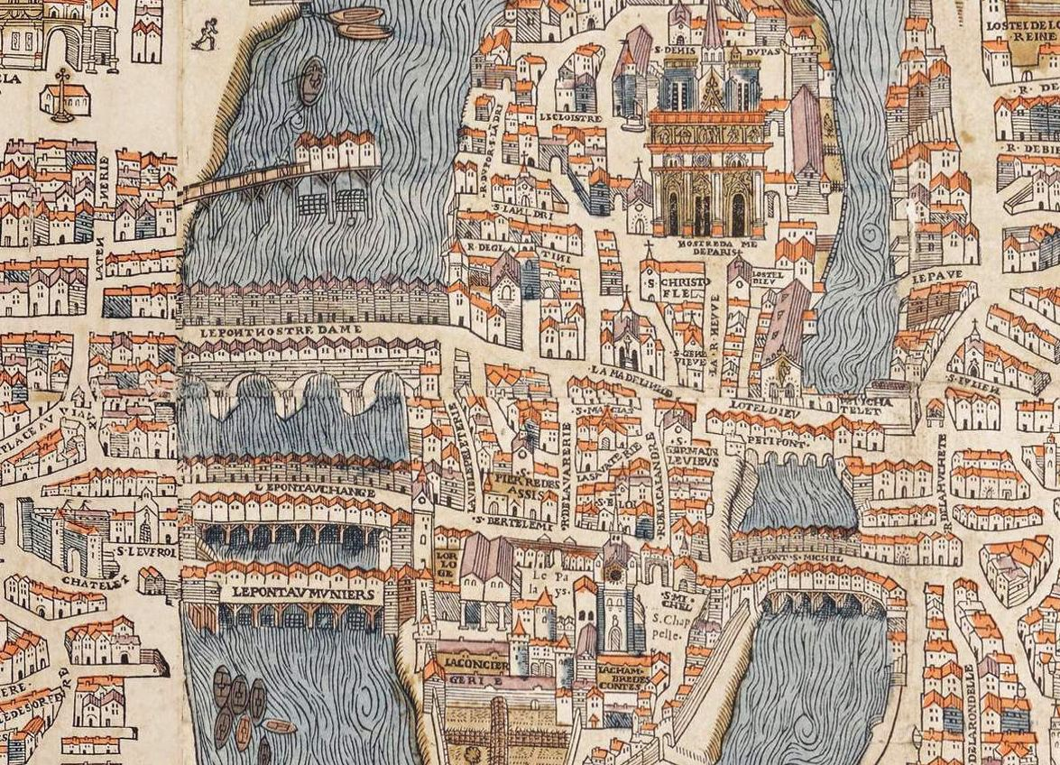 The île de la Cité and its different bridges on the plan of Paris by Truschet & Hoyau (1550).